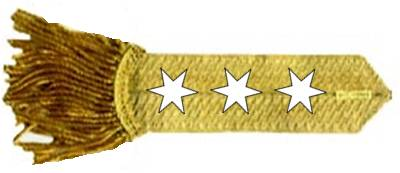 Shoulder insignia as worn by George Washington in 1782